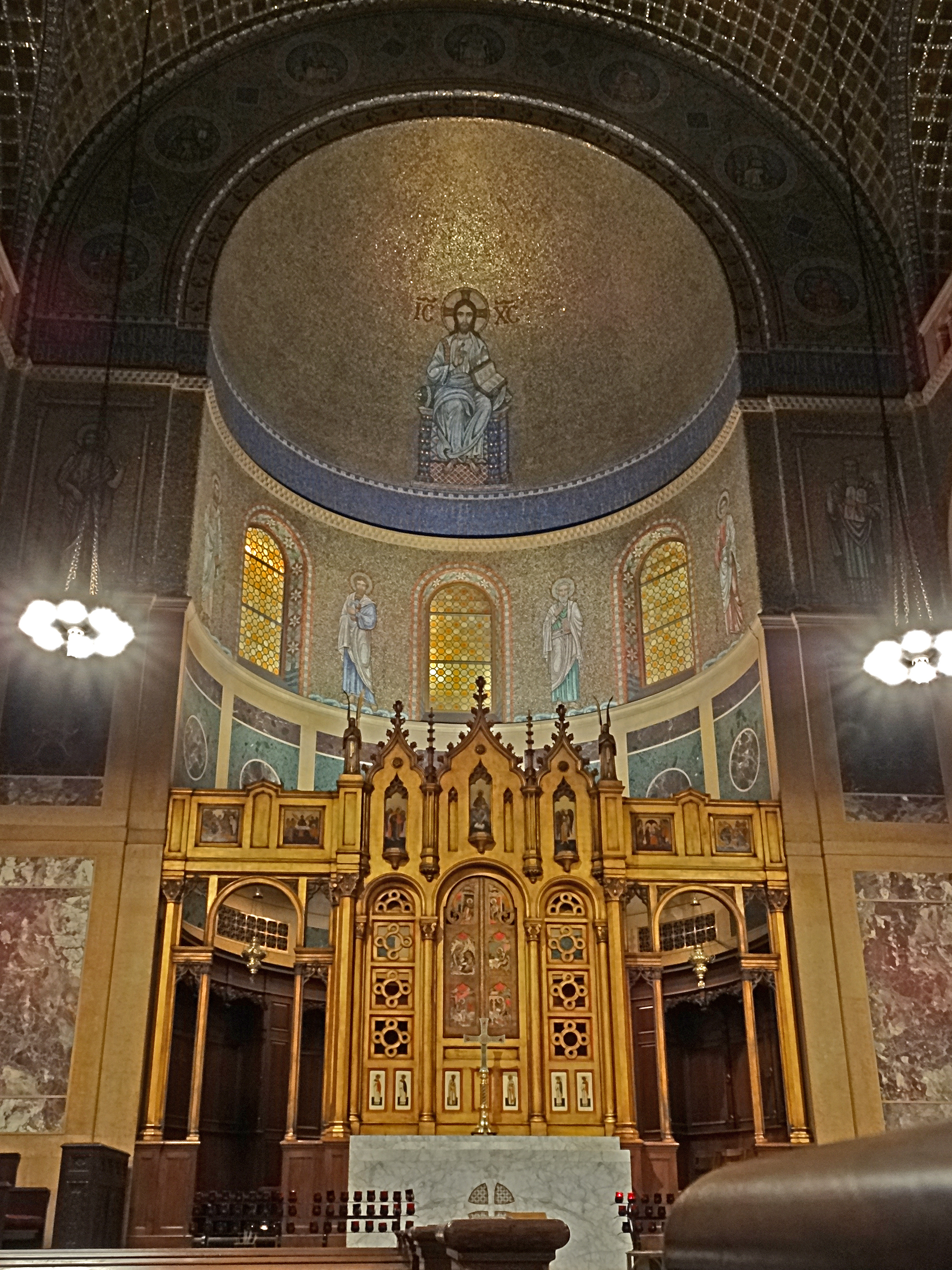 Christ Church (Manhattan), Altar